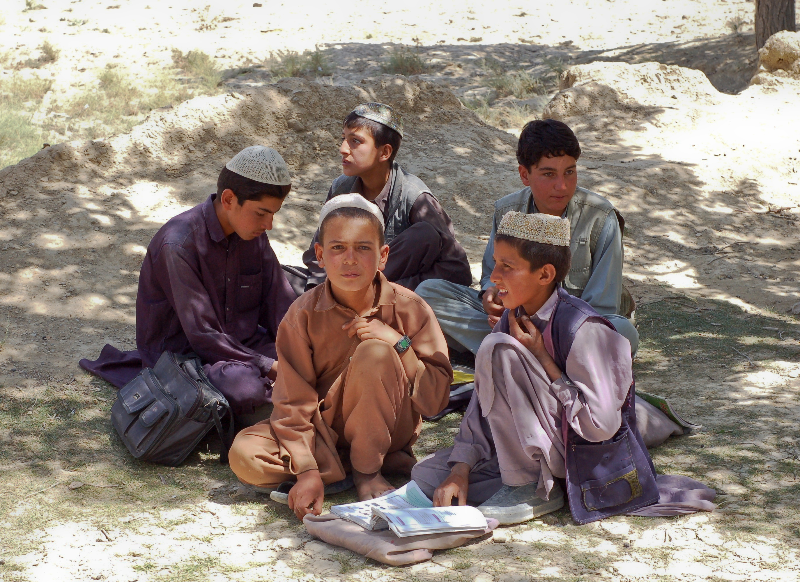 Students sit in the boys section of a school in Bamozai, near Gardez, Paktya Province, Afghanistan. The school has no building; classes are held outside in an orchard.